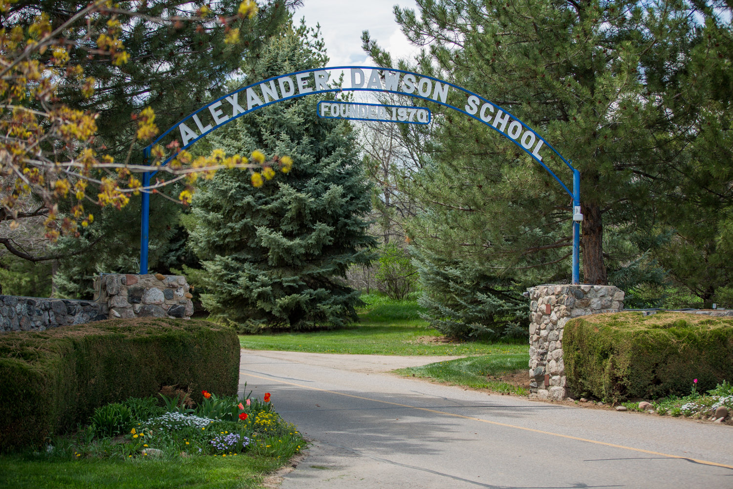 Alexander Dawson School in Lafayette, Colorado in May 2013.